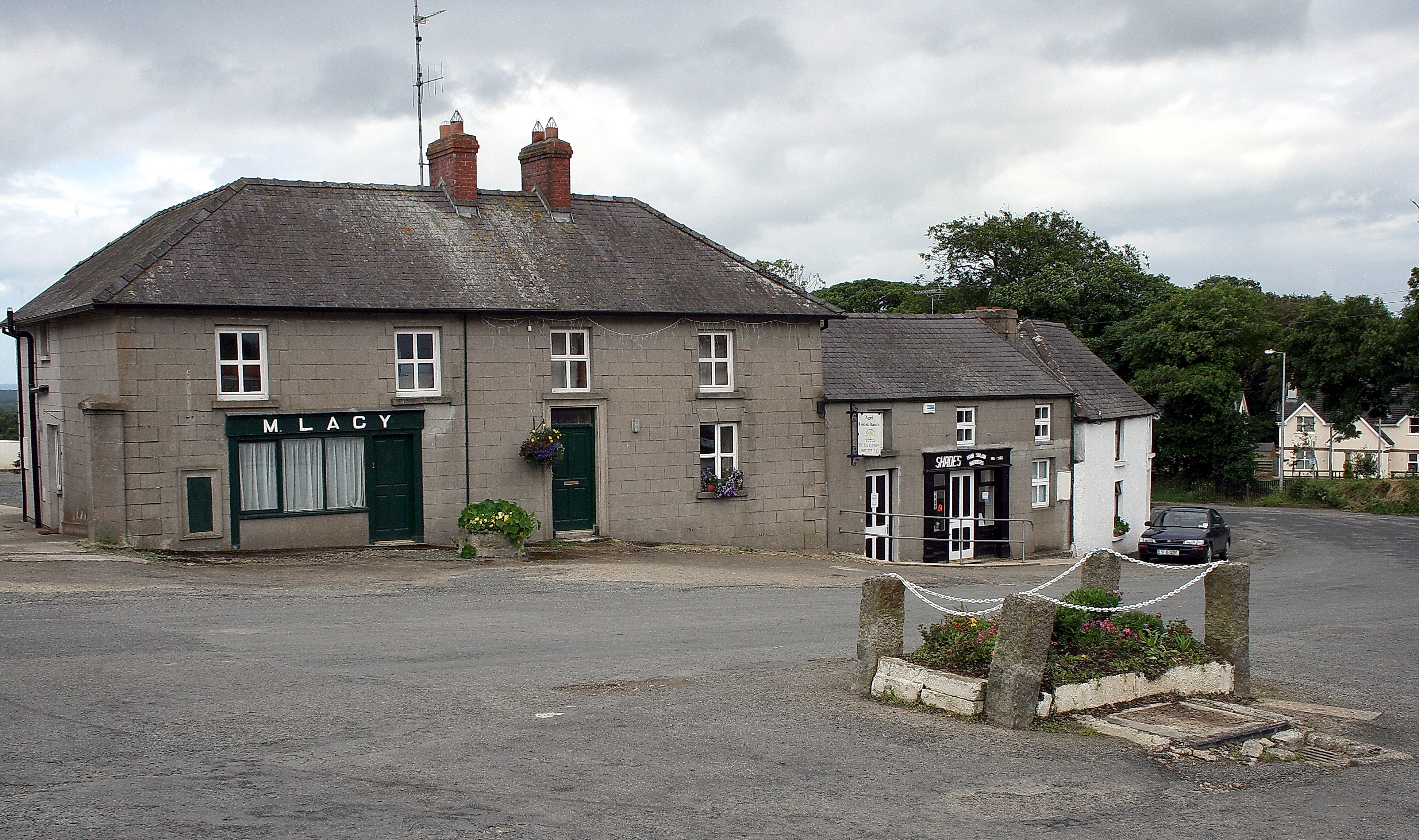 Monamolin, County Wexford, near to Monamolin, Buffer's Alley Cross Roads, Clone Cross Roads and Mounthoward Cross Roads, Wexford, Ireland. Village square.